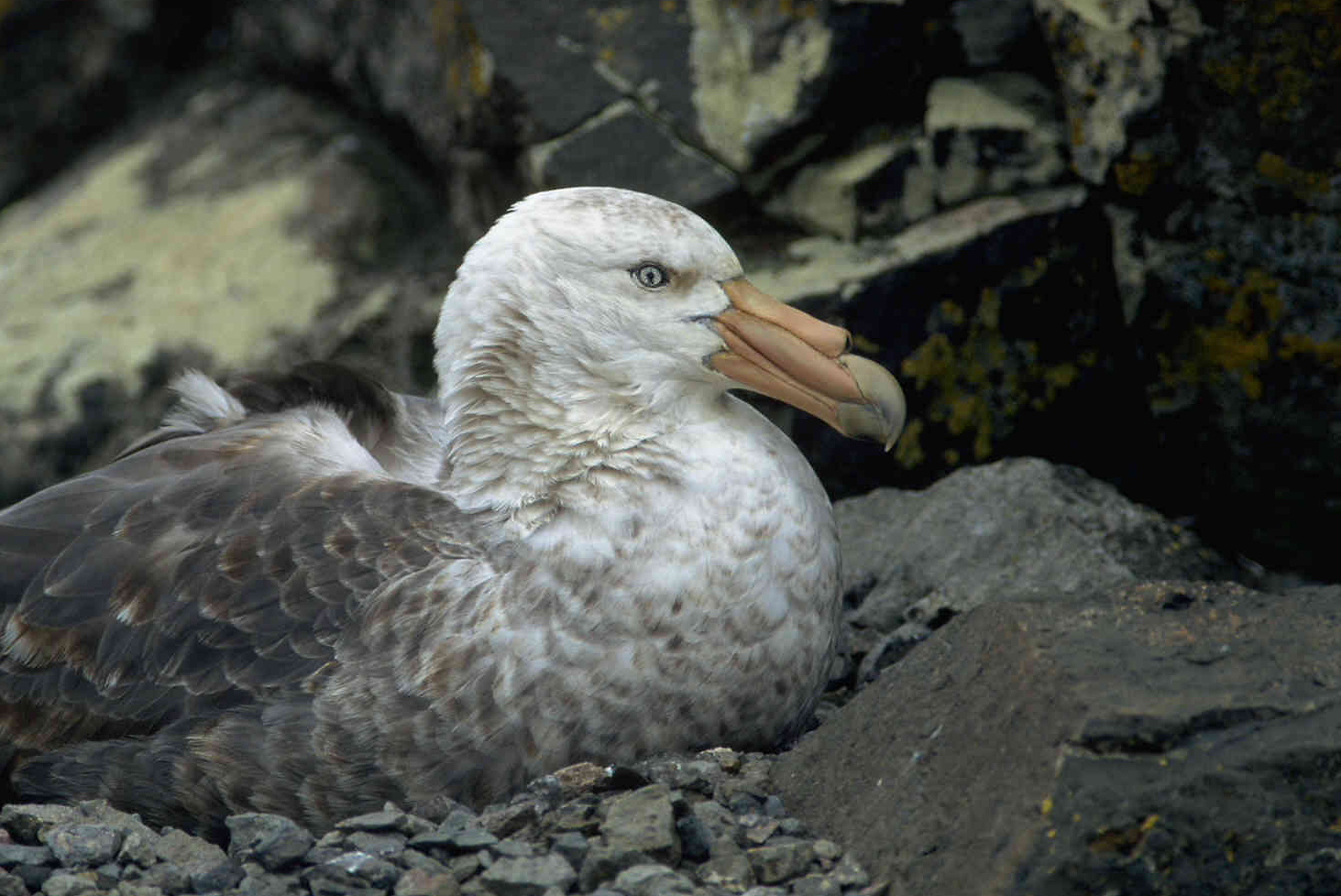 The Giant Petrel is the top avian scavenger in Antarctic waters. Their large size and bill help them dominate carcasses. This light-phased bird in sitting on its nest on the Antarctic Peninsula.